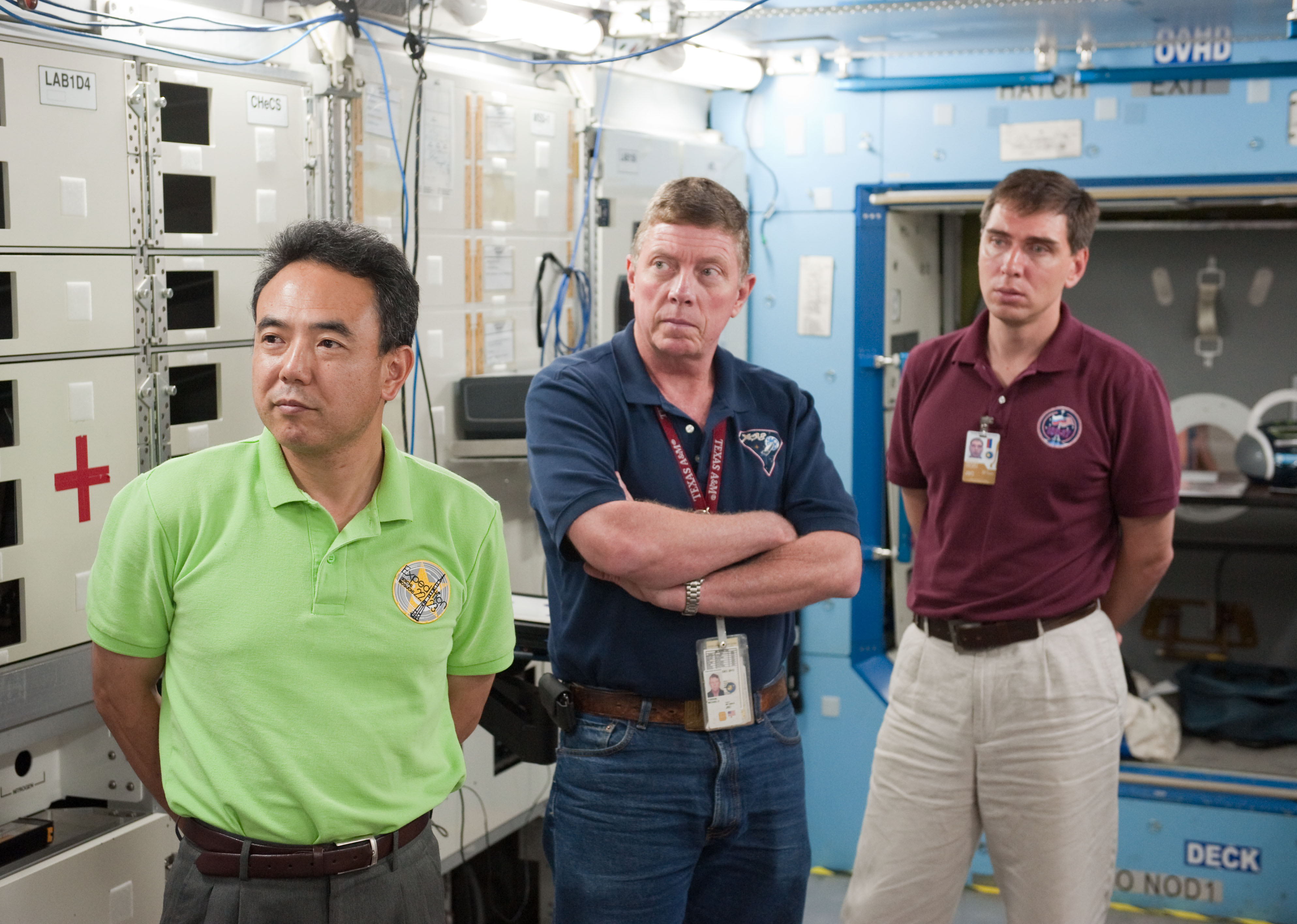 NASA astronaut Mike Fossum (center), Expedition 28 flight engineer and Expedition 29 commander; along with Japan Aerospace Exploration Agency (JAXA) astronaut Satoshi Furukawa (left) and Russian cosmonaut Sergei Volkov, both Expedition 28/29 flight engineers, are pictured during an advanced cardiac life support training session in an International Space Station mock-up/trainer in the Space Vehicle Mock-up Facility at NASA's Johnson Space Center.